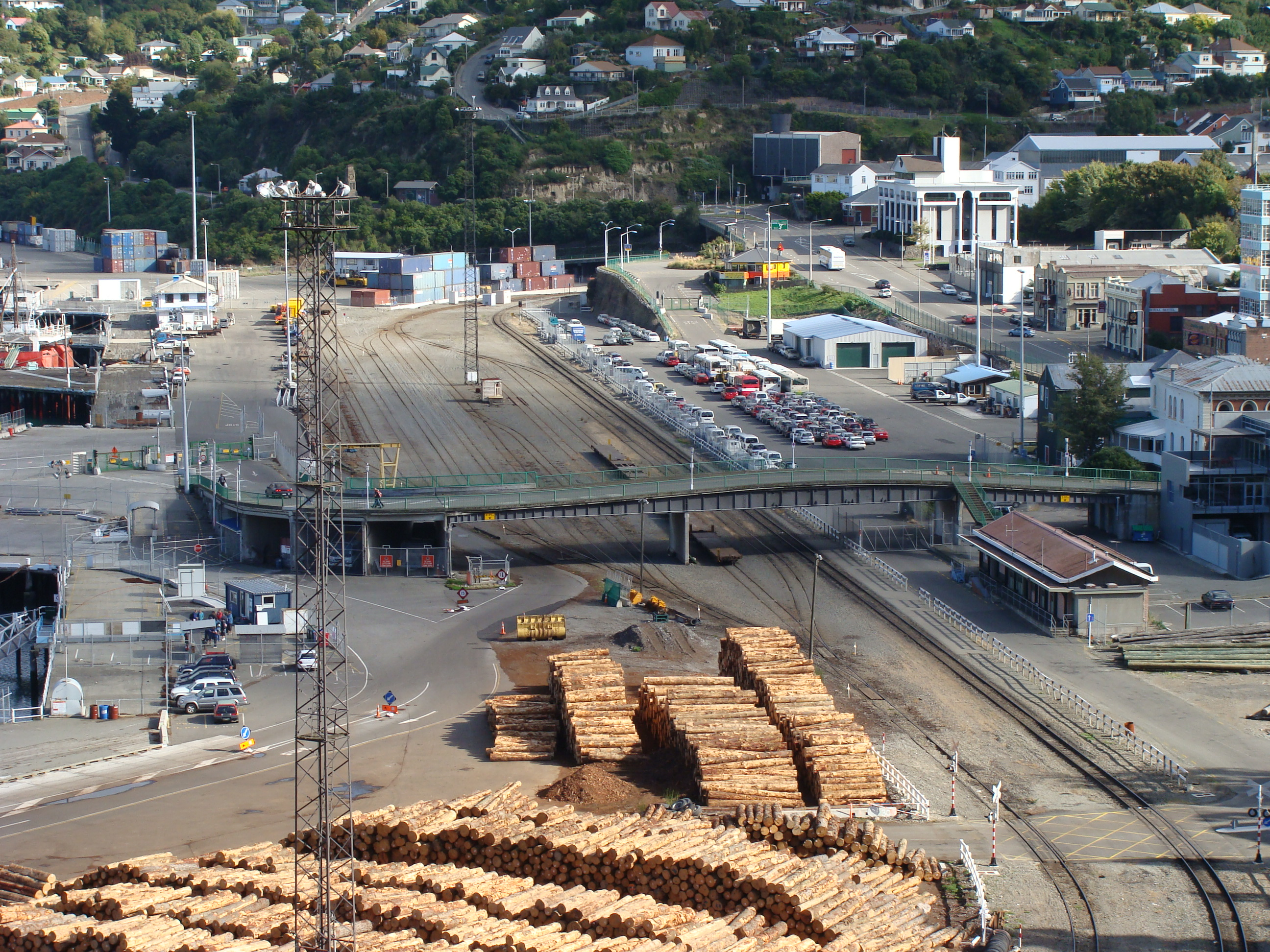 Lyttelton railway station yard. Features of interest include the Oxford Street overbridge (middle), Lyttelton station building (right, in front of the bridge), shore-end of wharves 2 and 3 (left, opposite the end of the bridge), Lyttelton rail tunnel portal (obscured, centre background), and Lyttelton road tunnel portal (centre-right background). Also shown are two of the ports main sources of traffic: timber and motor vehicles.